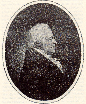 Alexander Henry (1739-1824) 'The Elder' of Montreal, pioneer of the British-Canadian fur trade from 1760, original member of the Beaver Club